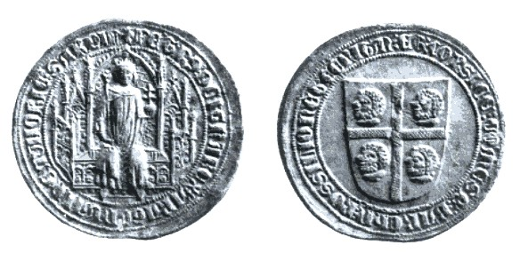 Peter IV of Aragon